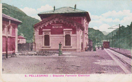 San Pellegrino railway station